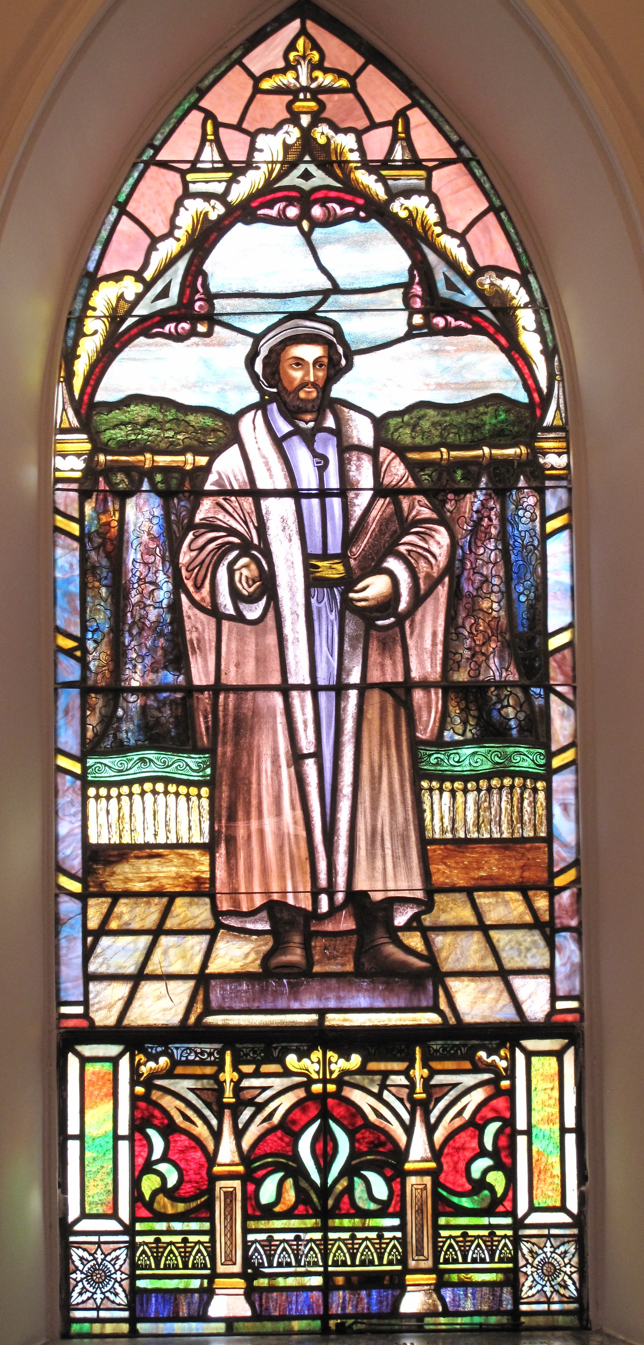 A stained glass window depiction of Philipp Melanchthon attributed to the Quaker City Stained Glass Company of Philadelphia, PA. Installed in St. Matthew's Lutheran Church in Charleston, SC in 1912.